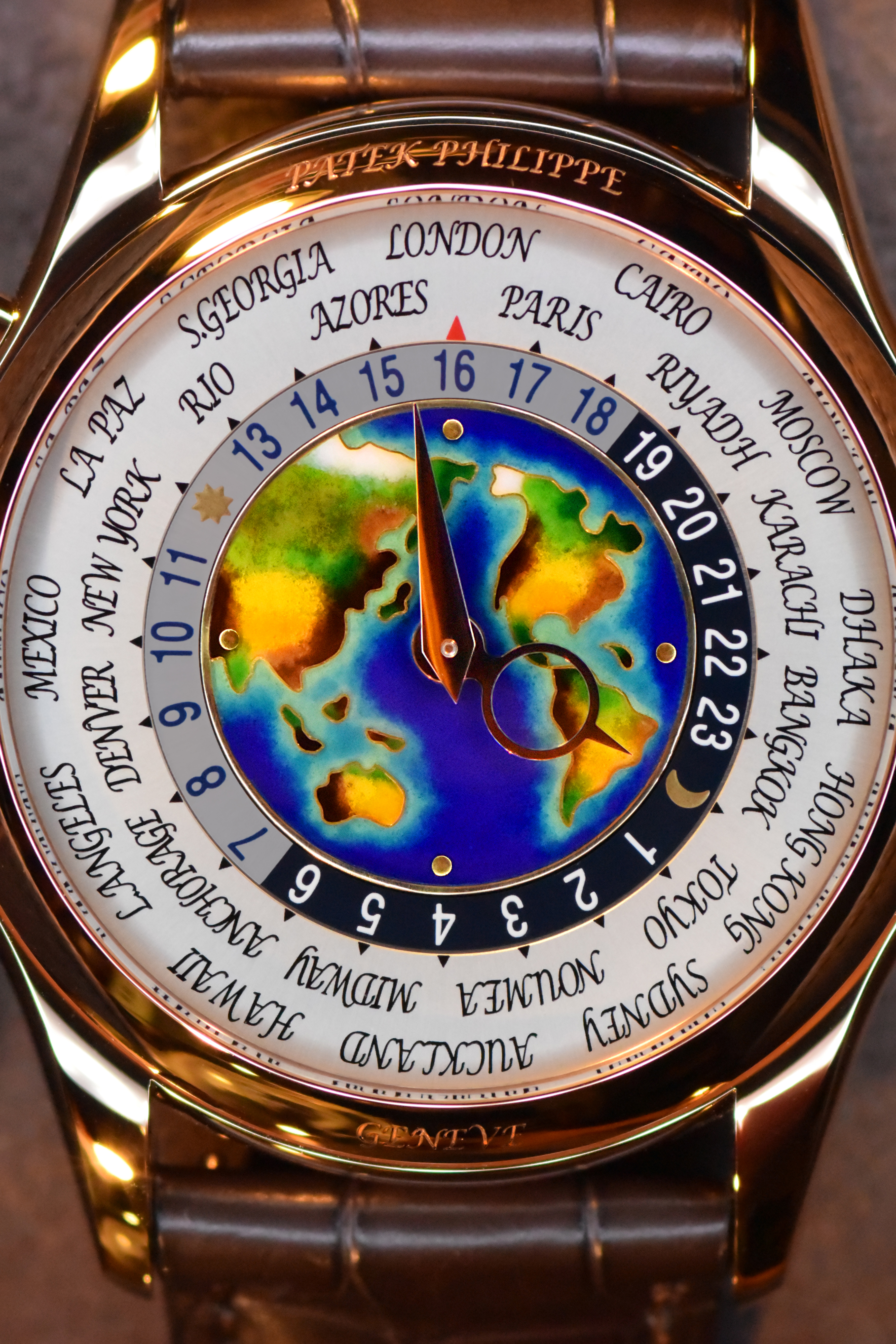 Cloisonné enamel dial showing Asia and the Americas. 24-hour and day/night indication for the 24 time zones. Alligator strap with square scales, hand-stitched, matte dark brown, fold-over clasp. Case diameter: 39.5 mm. Caliber 240 HU. Rose Gold. Introduced 2105.